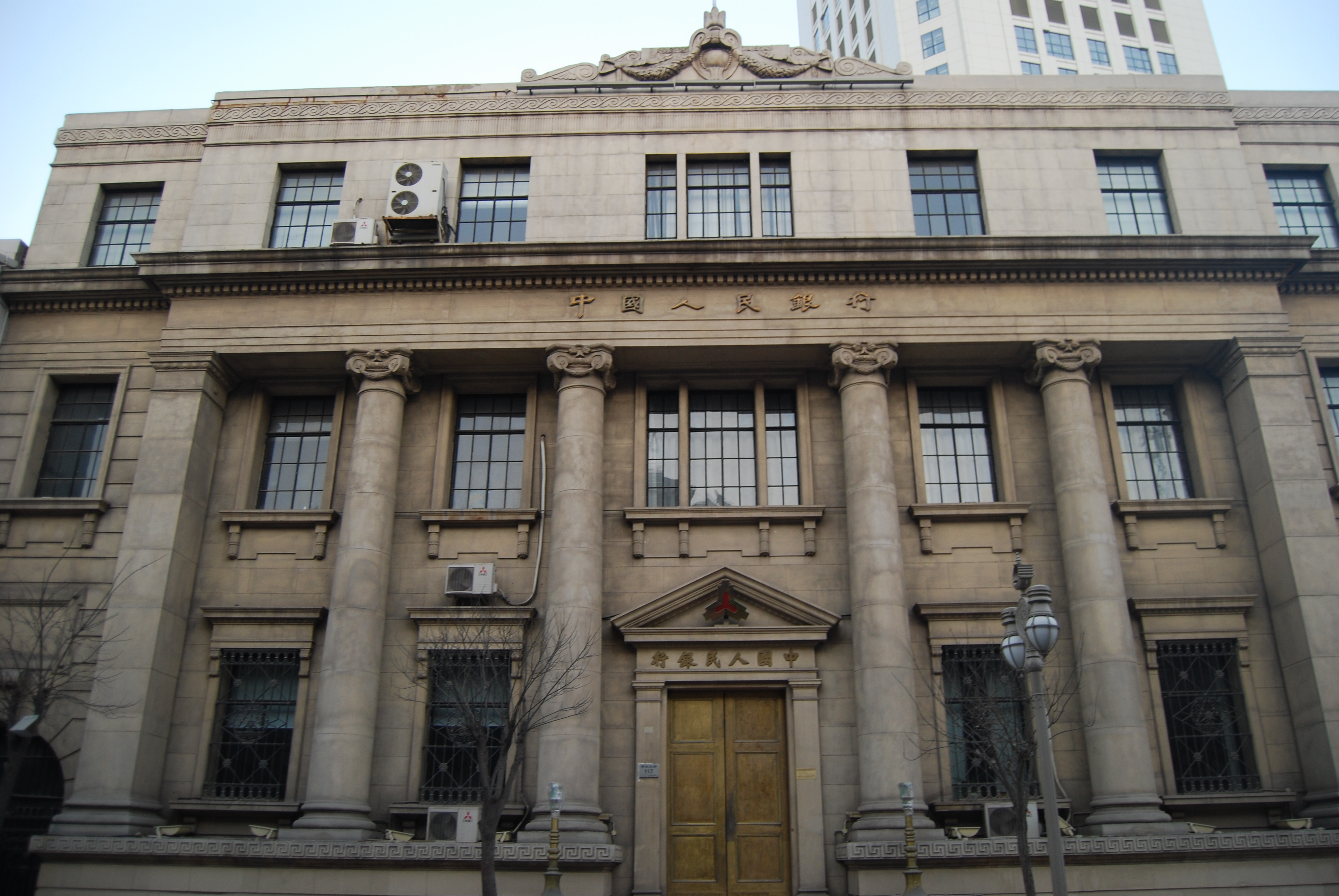 Former Central Bank in Tianjin, Heping District, Jiefangbei Lu No. 117–119